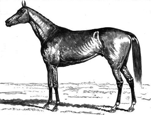 Martini Henry (NZ), a Thoroughbred stallion foaled 1880 by Musket (GB) from Sylvia (AUS) 1864. Won VRC Mares Produce Stakes, VRC Melbourne Cup, VRC Victoria Derby, VRC St Leger Stakes and sired 15 stakeswinners for 24 stakeswins. This image is of Australian origin and is now in the public domain because its term of copyright has expired. According to the Australian Copyright Council (ACC), ACC Information Sheet G023v17 (Duration of copyright) (August 2014).3 Type of materialCopyright has expired if … A Photographs or other works published anonymously, under a pseudonym or the creator is unknown: taken or published prior to 1 January 1955BPhotographs (except A): taken prior to 1 January 1955CArtistic works (except A & B): the creator died before 1 January 1955DPublished editions1 (except A & B): first published more than 25 years agoECommonwealth, State or Territory owned2 photographs and engravings: taken or published more than 50 years ago 1 means the typographical arrangement and layout of a published work. eg. newsprint. 2 owned means where a government is the copyright owner as well as would have owned copyright but reached some other agreement with the creator. 3 Copyright Amendment (Disability Access and Other Measures) Bill 2017 (Australian Government) When using this template, please provide information of where the image was first published and who created it.